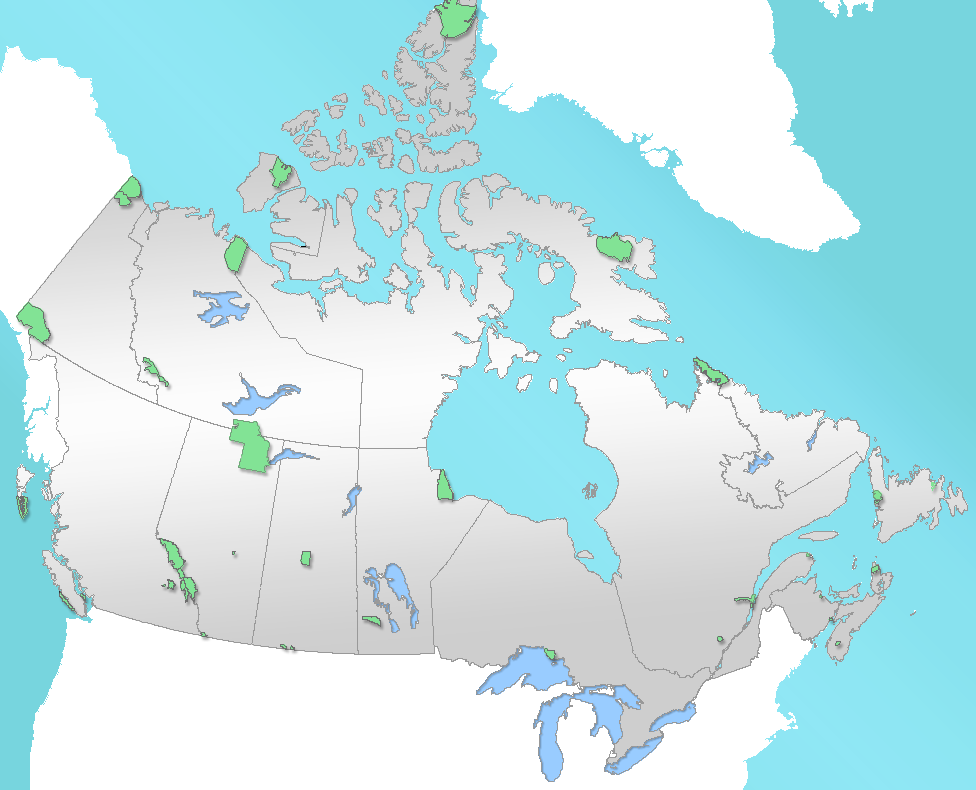 Location of Canadian national parks